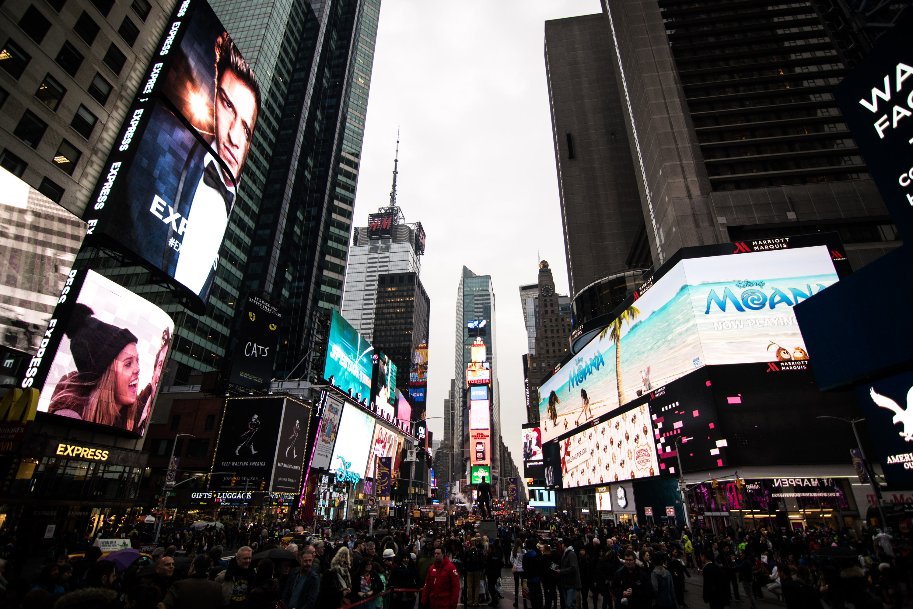 Times Square at twilight (New York City, United States).